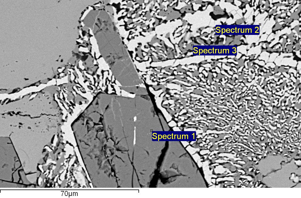 Backscattered electron image of a fayalite-pyroxene symplectite against an apatite crystal, from the Los Angeles Martian Shergottite meteorite